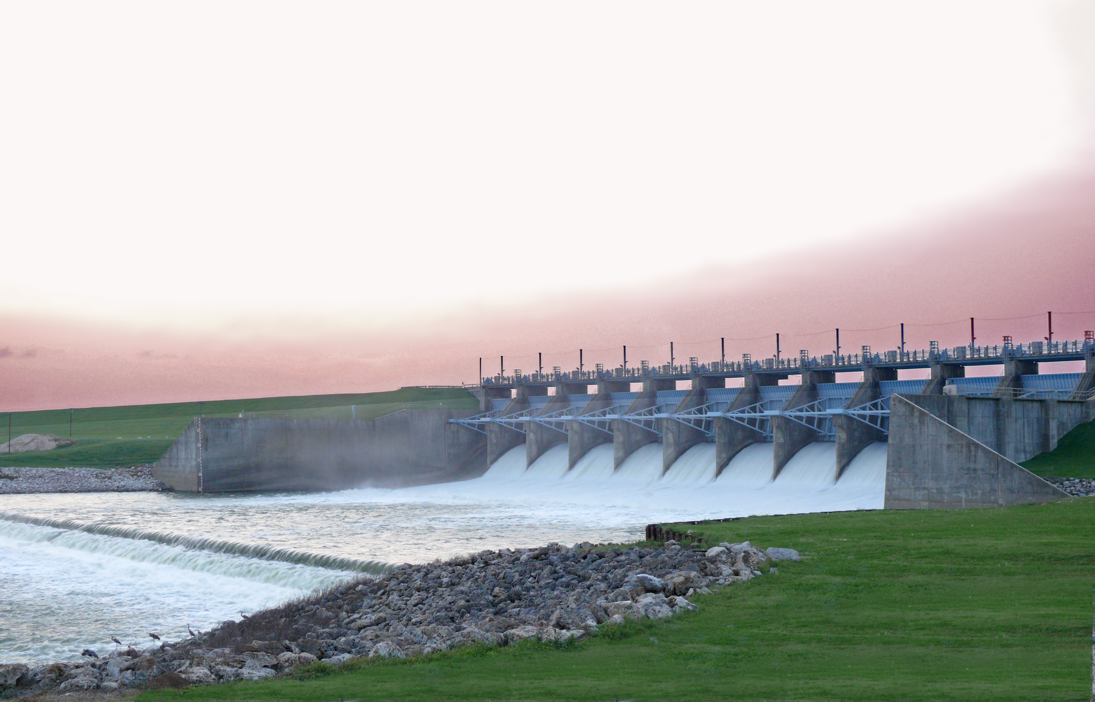 Downstream side of Lake Livingston Dam in Polk County Texas